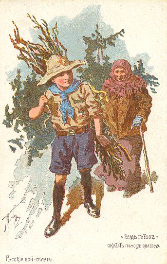 scan of a post card from the collection of Kintetsubuffalo (talk) 03:14, 24 December 2005 (UTC) early postcard of Scouting in Russia